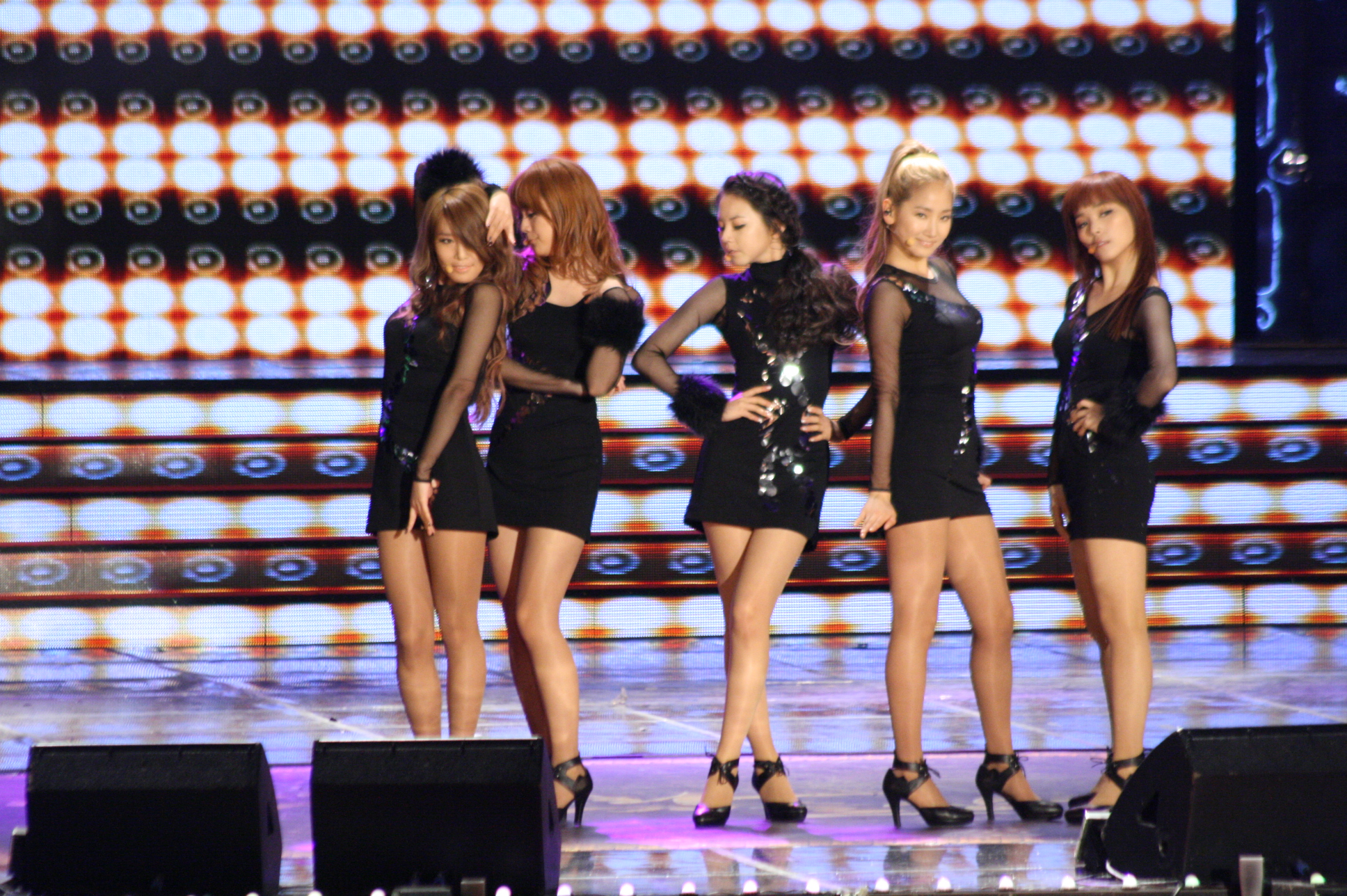 Wonder Girls in 2011 Korea Entertainment Awards